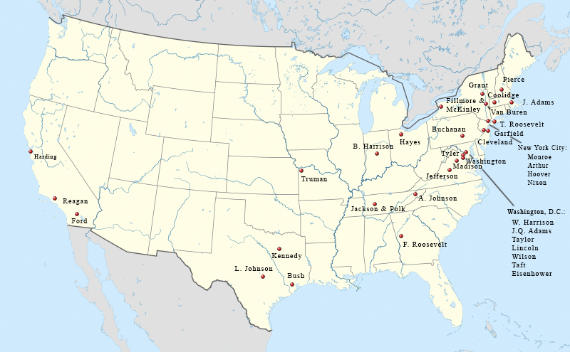 Map denoting where the U.S. Presidents died